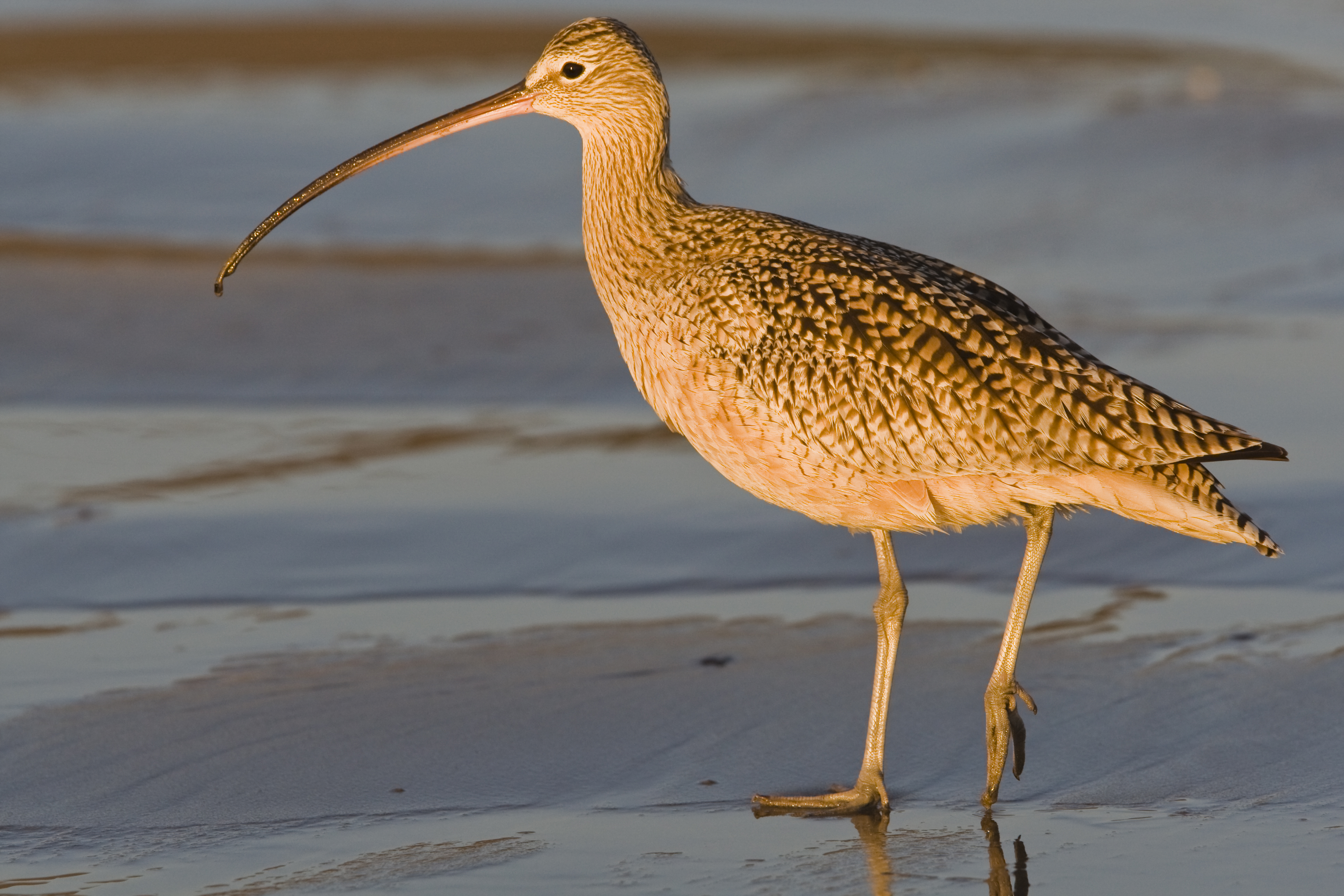 Long-billed Curlew (Numenius americanus), in late evening light on wet sand on the Morro Strand State Beach, Morro Bay, CA, 10 Feb 2008 10feb2008 - Photo by Michael "Mike" L. Baird Canon 1D Mark III w/ 300mm f/2.8 IS lens with 1.4X tele-extension, handheld.